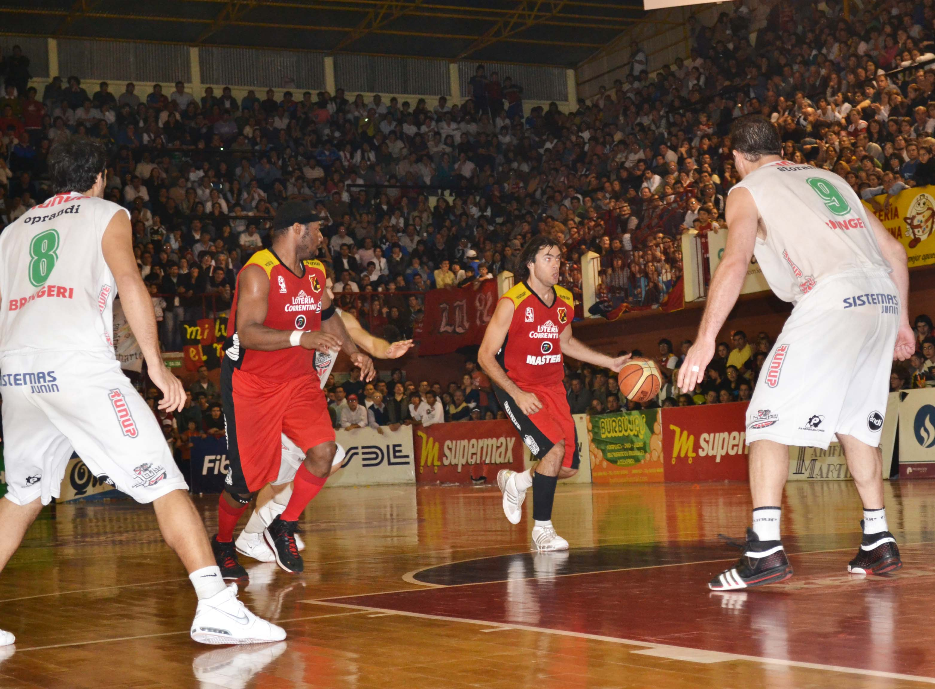 partido